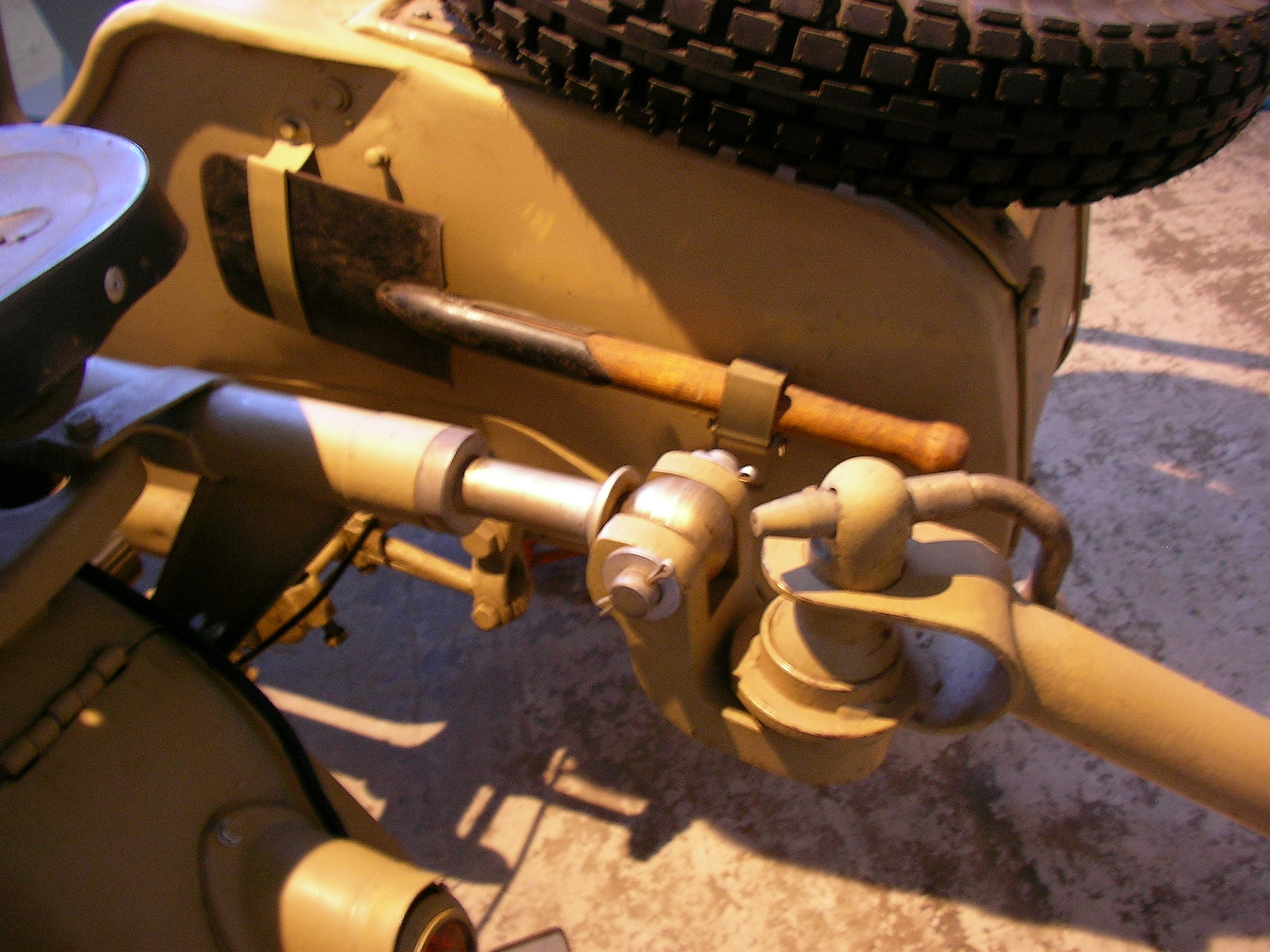 Einheitsprotzhaken (trailer connector attached at) Zündapp KS 750 [2]